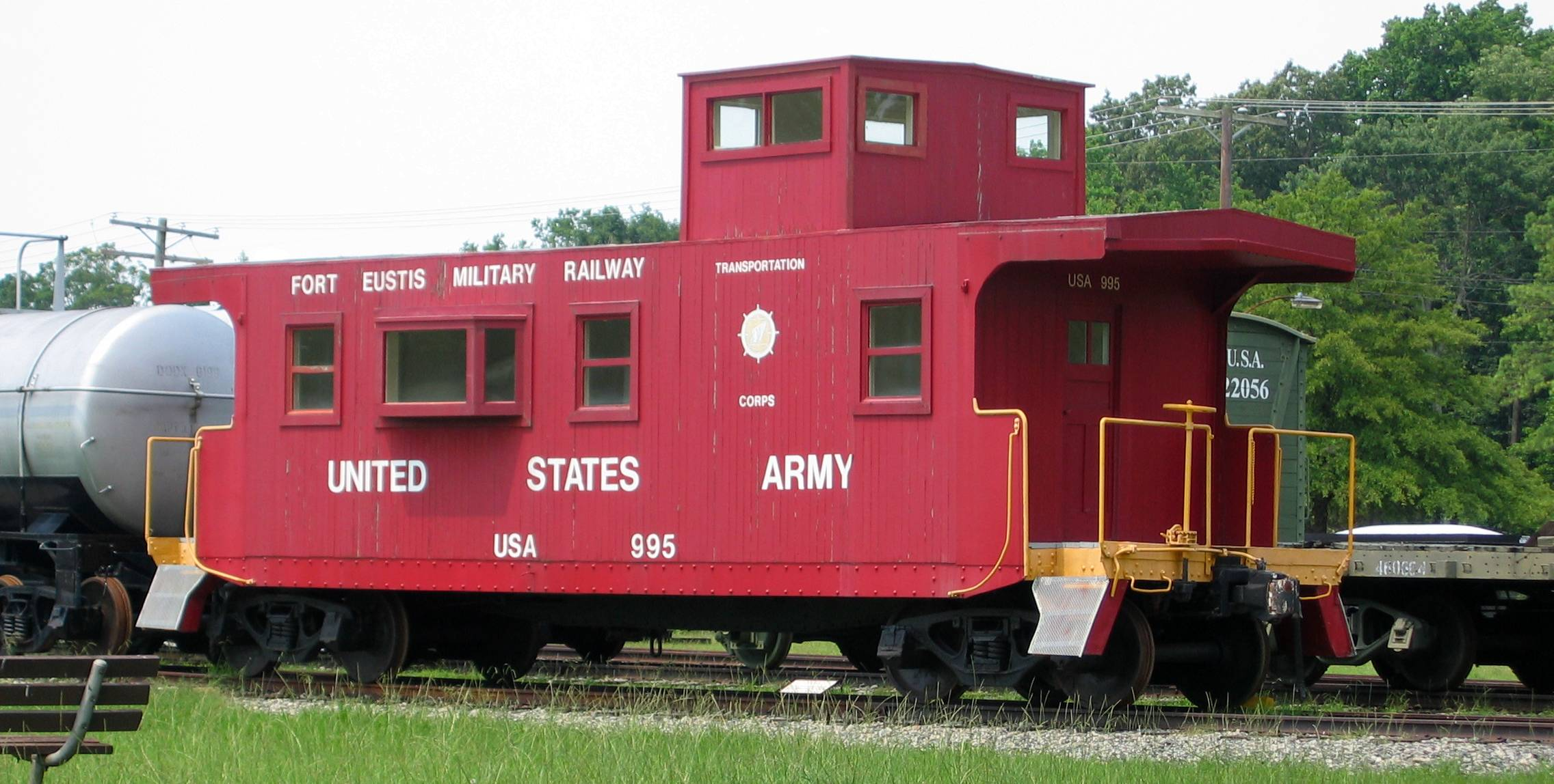 I took this photograph and release it to the public domain.